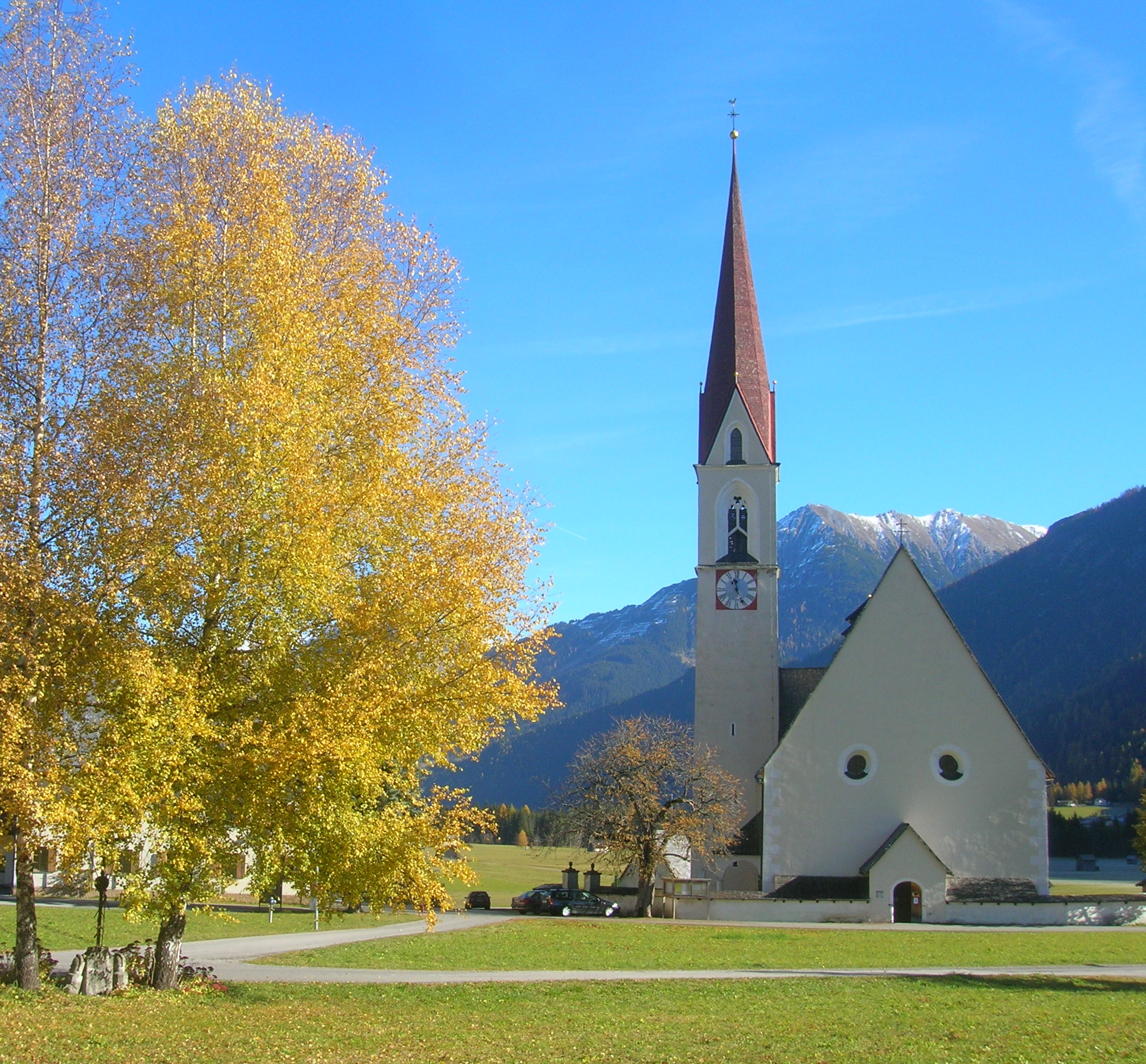 Parish church in Elbigenalp, Tyrol